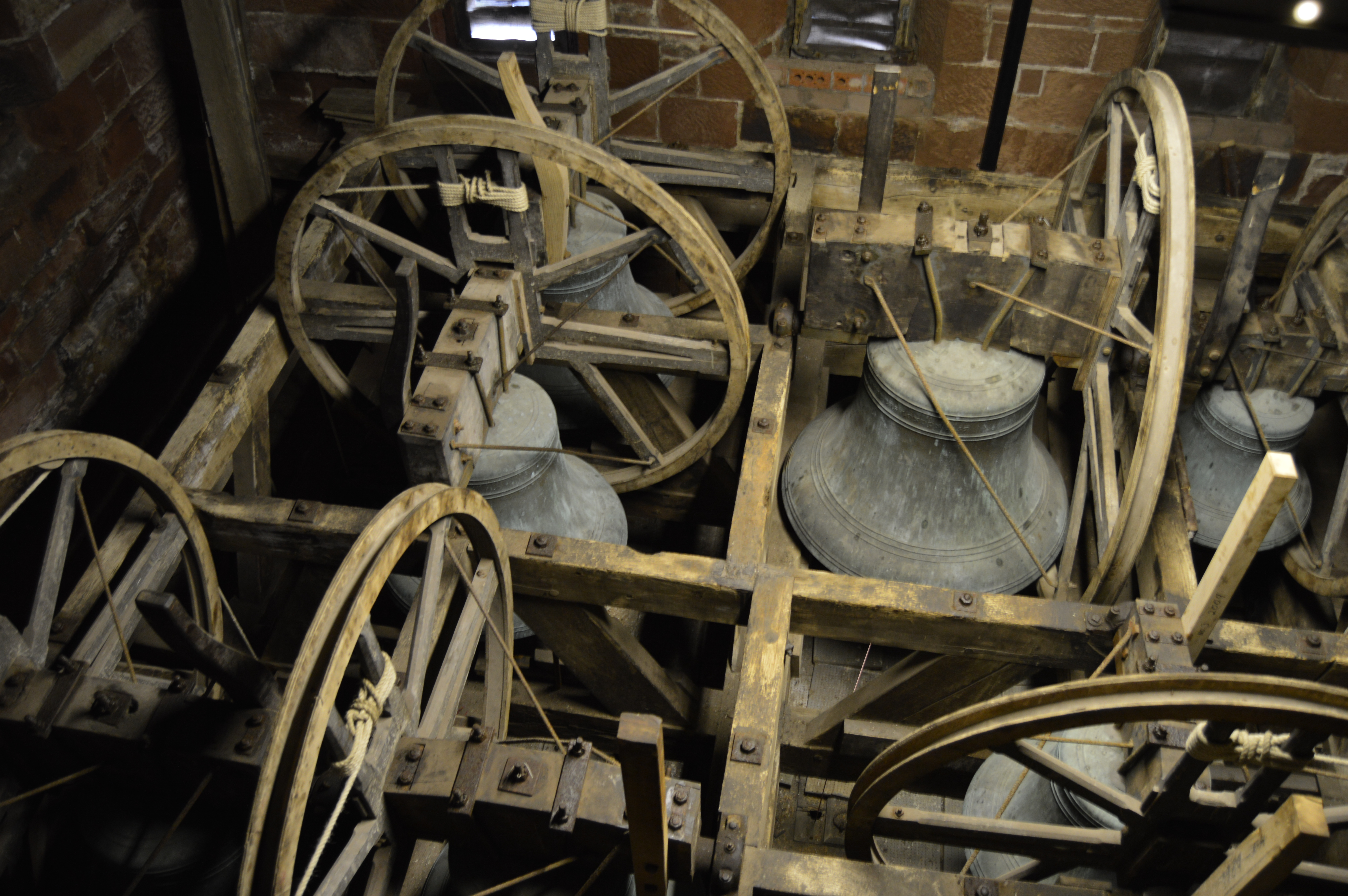 The eight bells of St Bees Priory, Cumbria, in the "down" position, in which they are normally left between ringing sessions. Cast in 1857 by Charles and George Mears of Whitechapel.